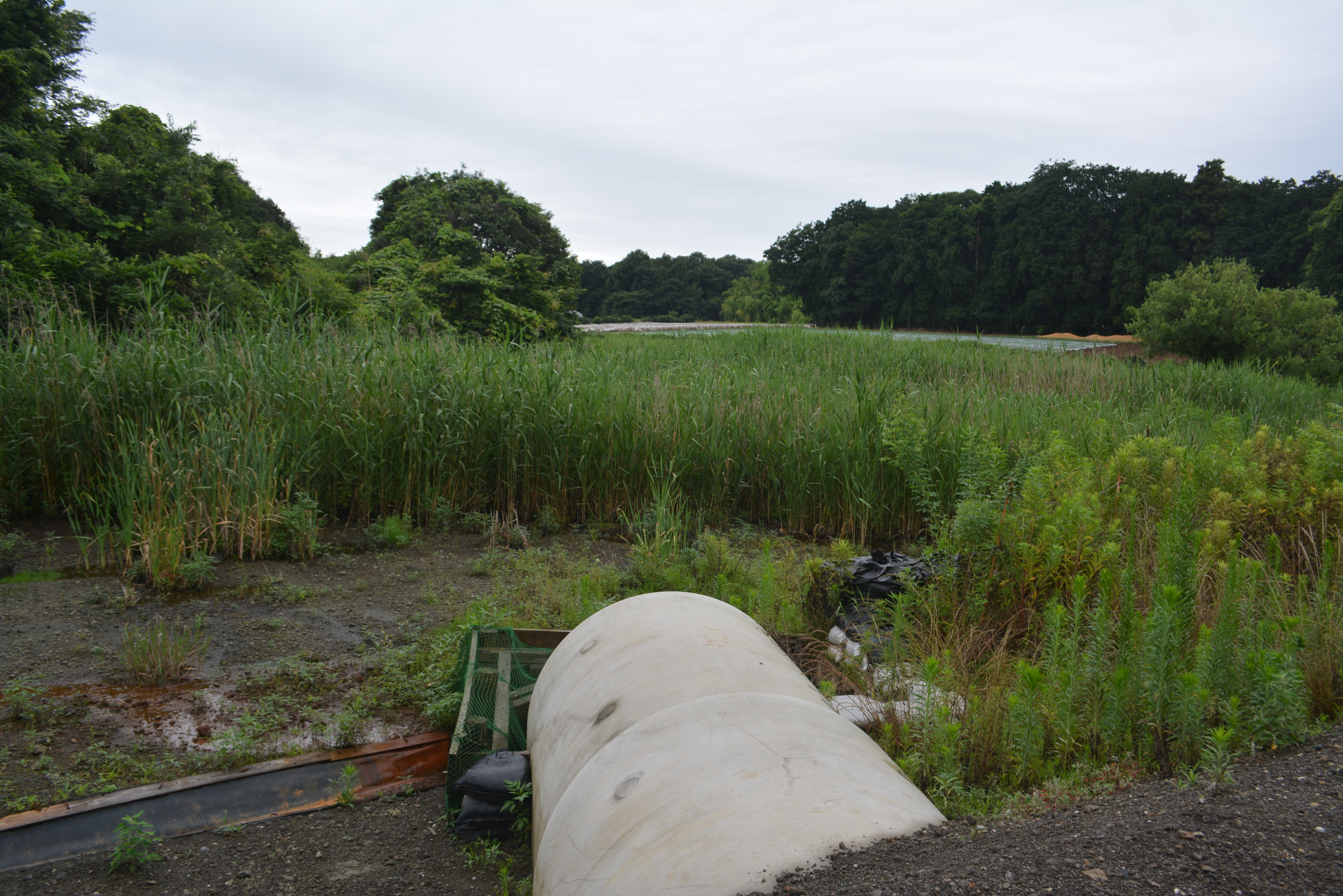 Wetlands next to Sakura no Satoyama,Bando city,Japan